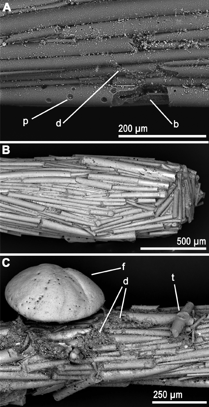 Spiculosiphon oceana: Scanning electron microscope images of stalks. (A) Tightly packed needle-like spicule fragments, with no obvious cement between them. Some debris (d) has flocculated on the spicules. Note that the silica of some of the oldest spicules started dissolving, as indicated by the occurrence of tiny cavities and pits (p) at their surface. Dissolution cavities are to be distinguished from accidental breakages (b) caused to the stalk during collection or laboratory manipulation. (B) View of the distal end of the stalk, showing that it is a closed, bulb-like structure. (C) Detail of a calcareous foraminifer (f) externally attached to the wall of one of the collected stalks. Note that a triaene (t) has been incorporated into the test and that some debris (d) has flocculated on the stalk.